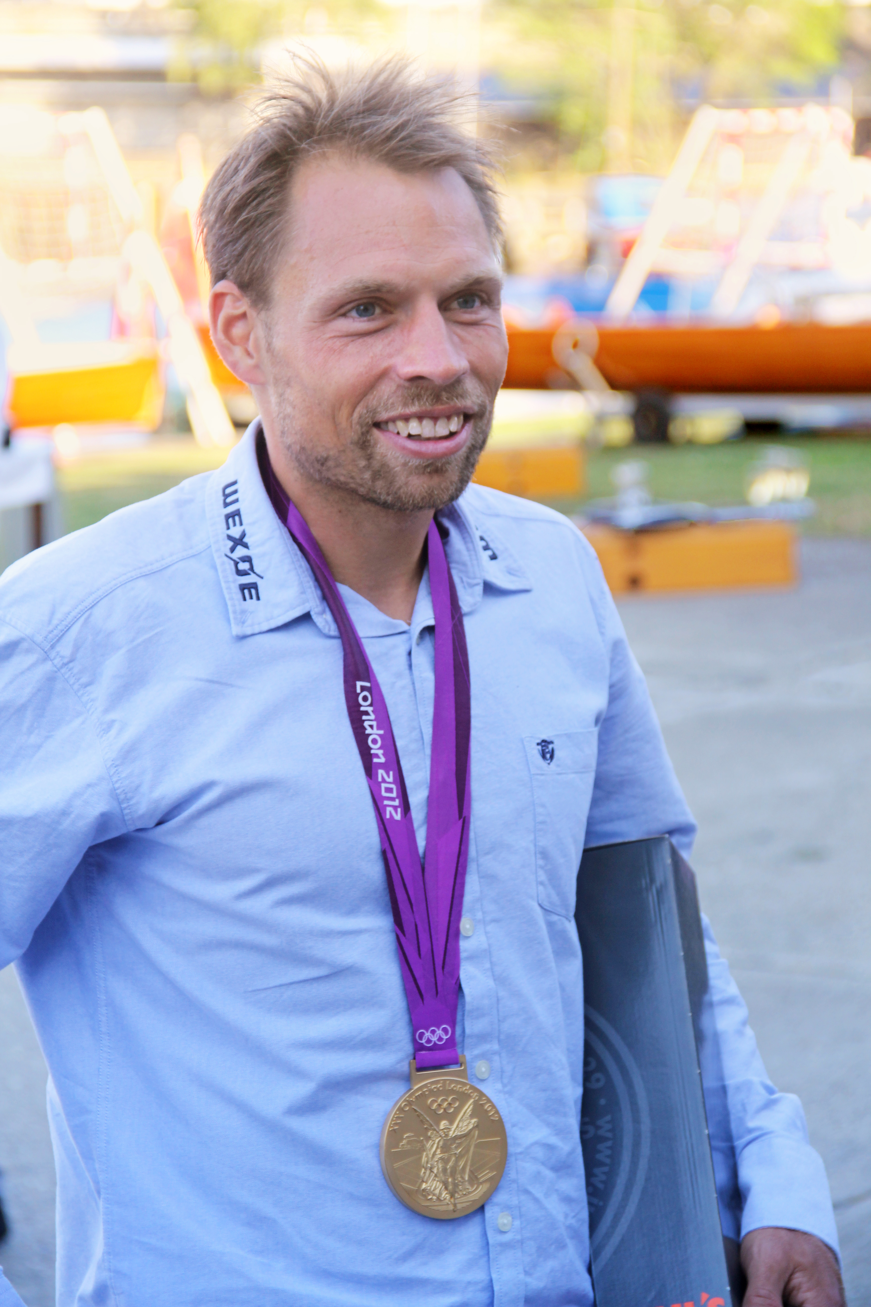 Rasmus Quist with gold medal from London 2012 Summer Olympics